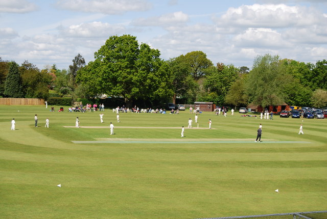 Playing Cricket, Horsham Cricket Club